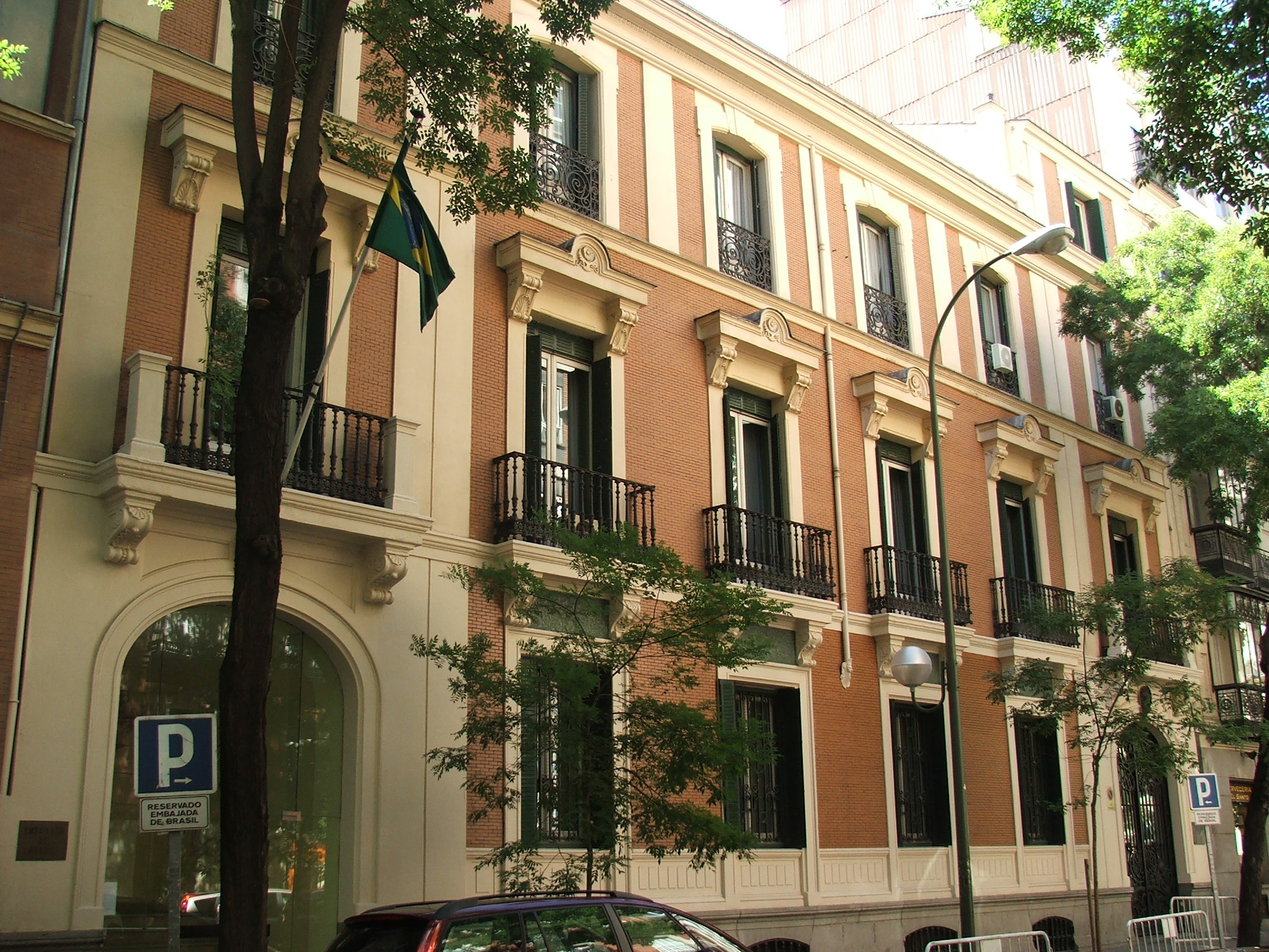 Embassy of Brazil in Madrid - Spain.